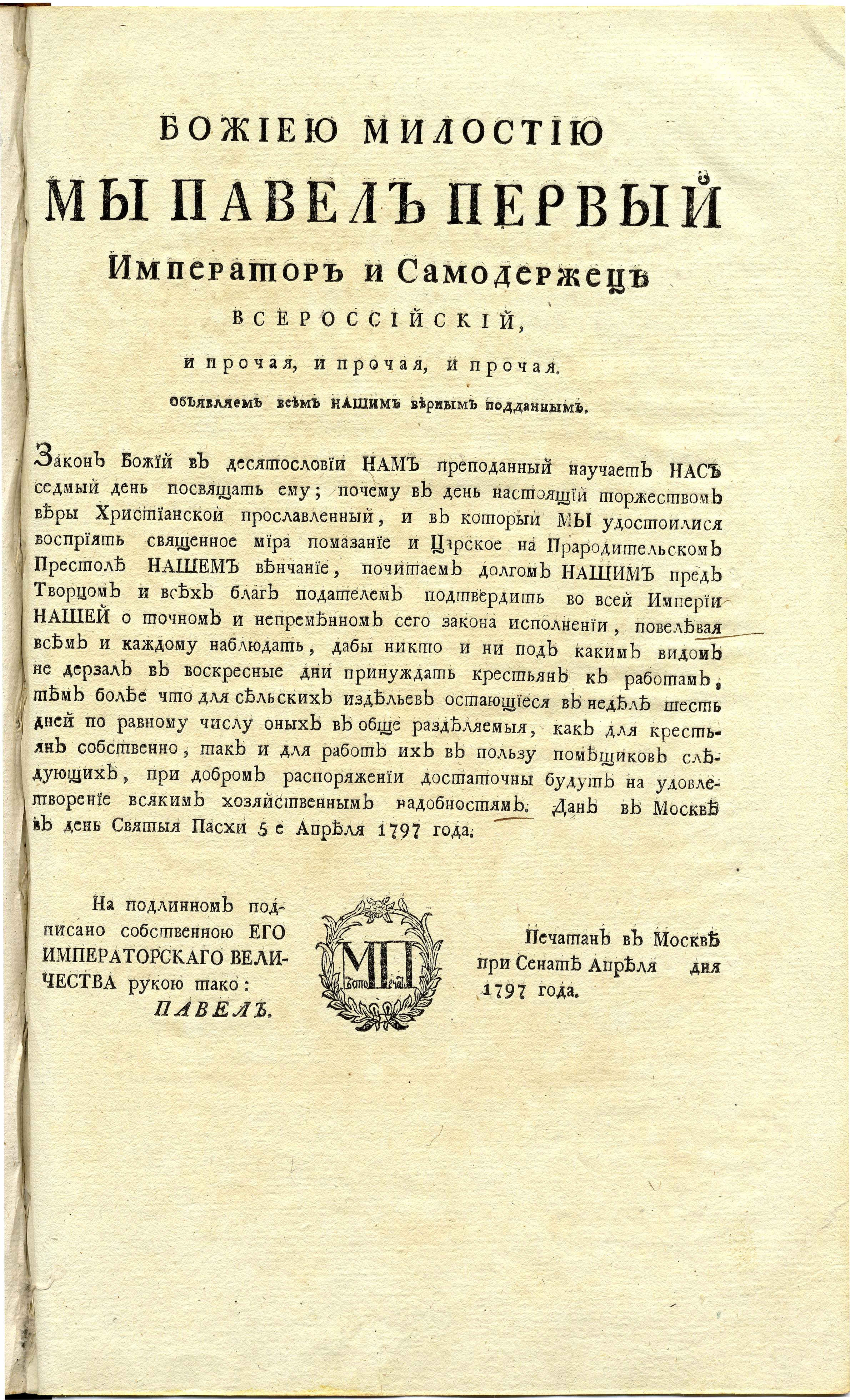 Manifesto of three-day corvee uploaded to ruwiki by Konstantin Dorokhin